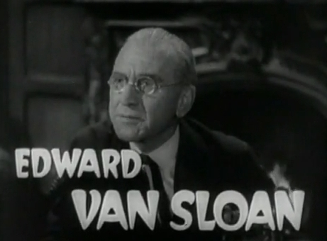 Screenshot of Edward Van Sloan from the film Dracula's Daughter.